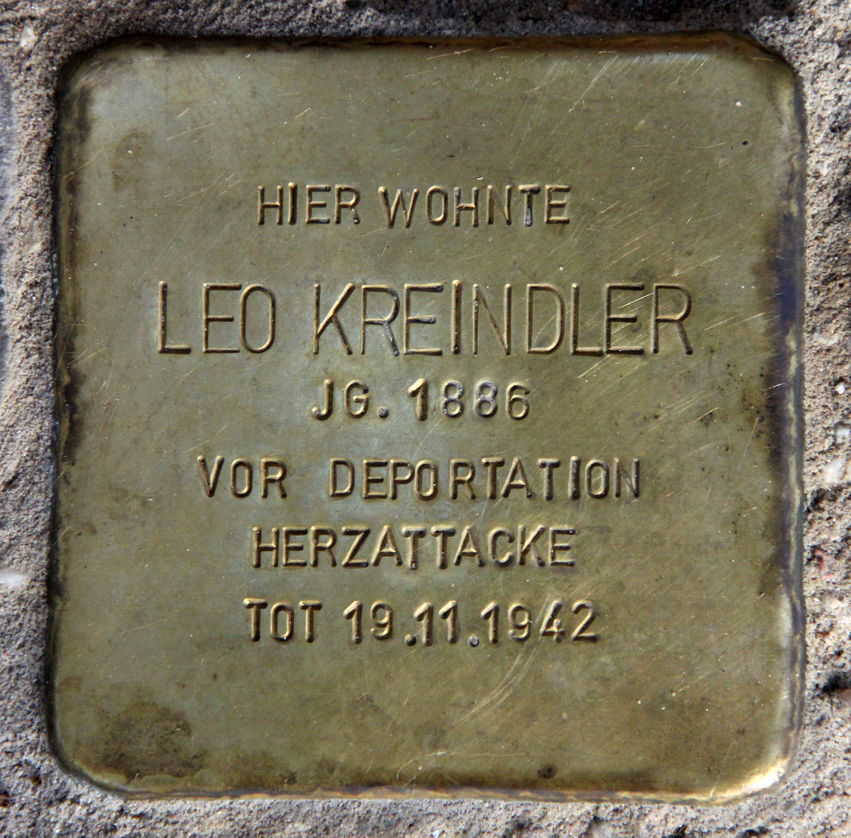 "Stolperstein" (stumbling block), Leo Kreindler, Pfalzburger Straße 10A, Berlin-Wilmersdorf, Germany